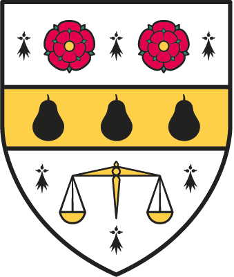 Nuffield Crest (revised in Summer 2017)